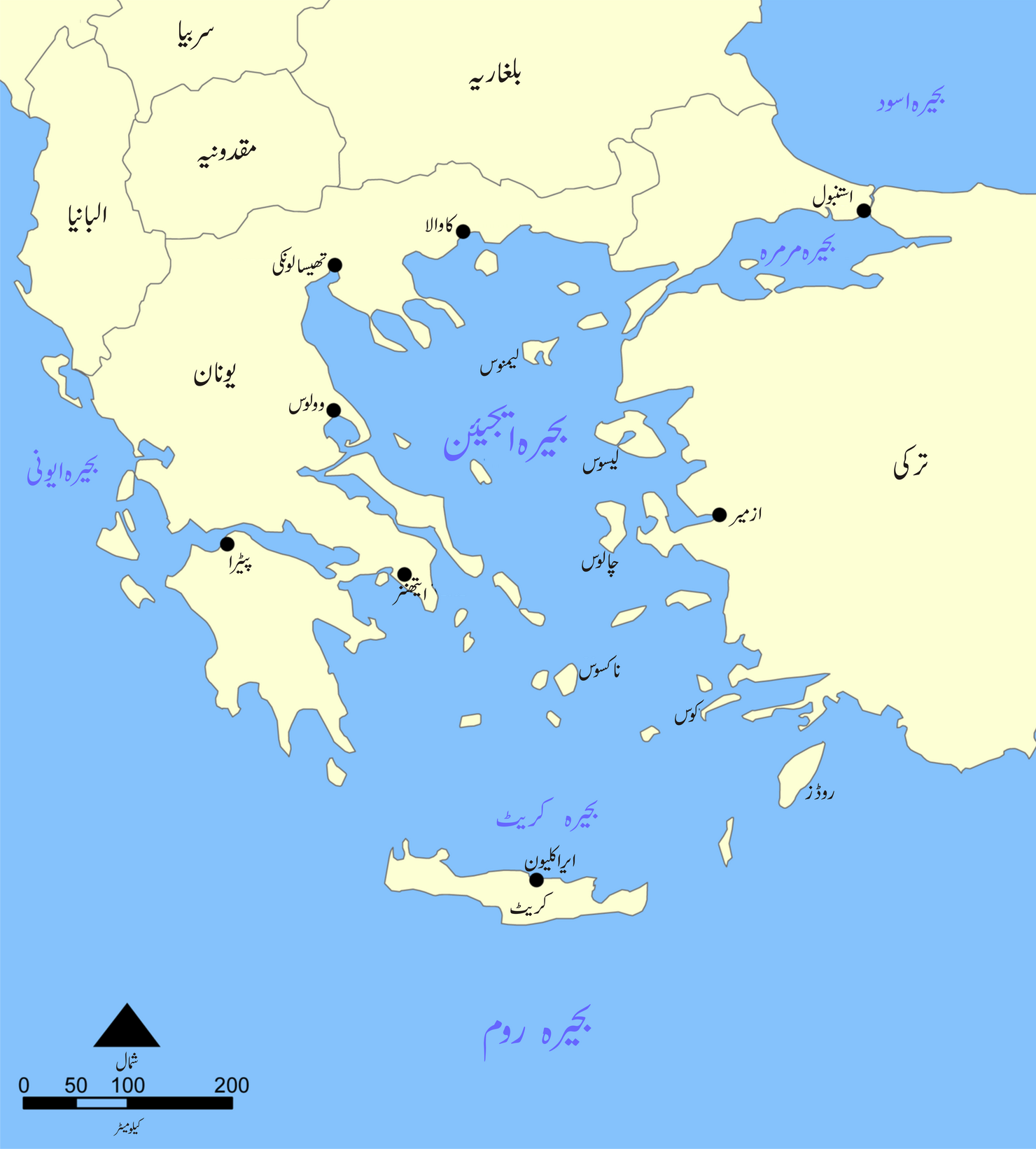 Aegean Sea map Urdu